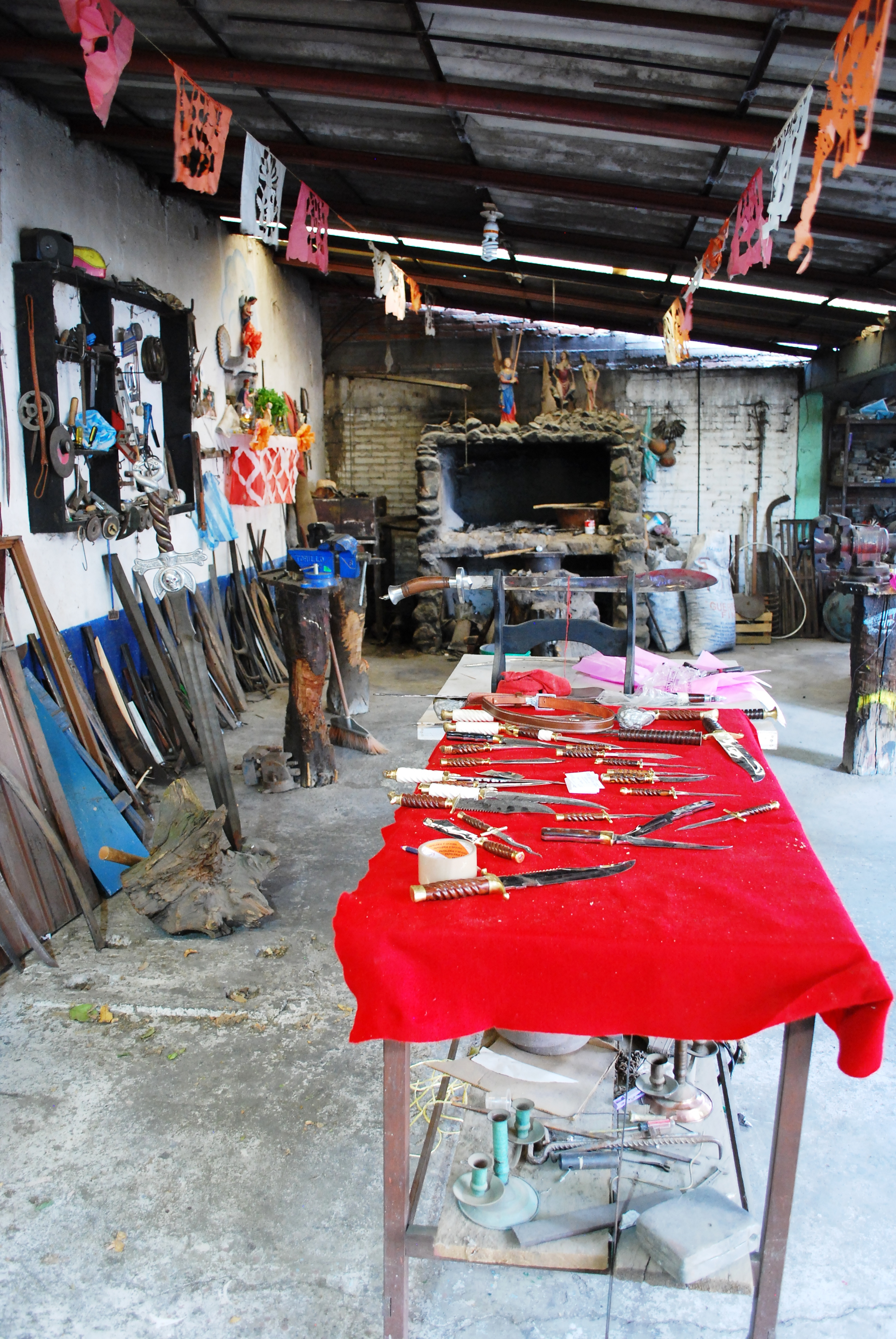 Overview of the blade workshop of Angel Aguilar in Ocotlan de Morelos, Oaxaca, Mexico